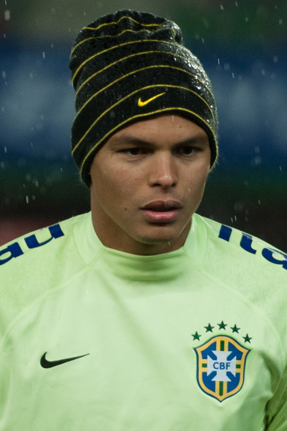 International Friendly Austria - Brazil November 18, 2014